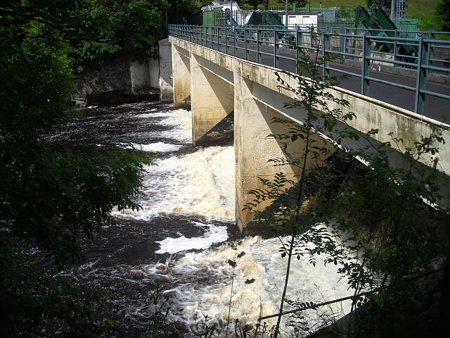 Bonnington Sluice Gates Above Falls of Clyde This weir supplies water to the Falls of Clyde hydro-electric power station.